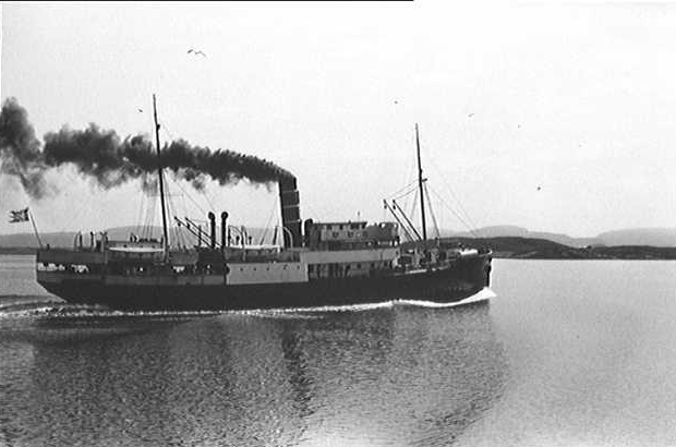 Norwegian coastal express ship (Hurtigruten) DS Polarlys, built in 1912.